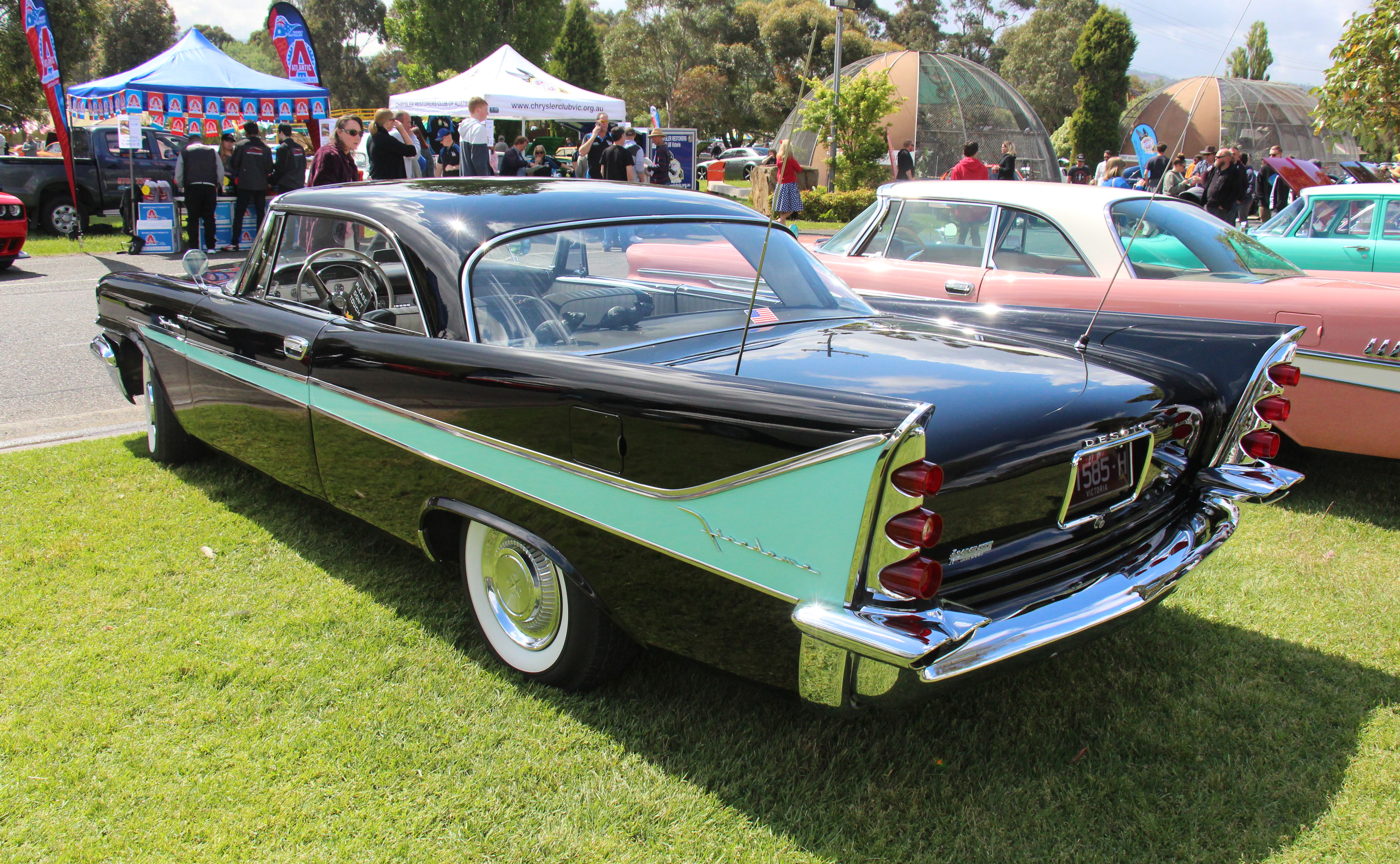 The Chrysler Corporation, founded in 1925, expanded in 1928, establishing Plymouth and DeSoto brands, they also acquired Fargo Trucks and Dodge Brothers Motors and started selling vehicles under those names. Desotos got the new forward look for 1957, looking even bigger, it got tall tail fins as well. Models available were; 122 inch wheelbase Firesweep, the front clip was from the Dodge Coronet. It was available in 2 and 4 door Sportsman Hardtop or 4 door Sedan and Wagon. The 1958 facelift saw quad headlights and the introduction of a Convertible. The longer 126inch wheelbase cars available were; The base Firedome, available in; 2 and 4 door Sportsman Hardtops, Convertible, and 4 door Sedan. The upmarket Fireflite was available in 2 or 4 door Sportsman Hardtop, Convertible and 4 door Sedan or Wagon. The performance Adventurer in 2 door Hardtop or Convertible. The 4 door Firesweep Sedan, along with Dodge Custom Royal and Plymouth Belvedere were also assembled in Australia in 1958 and 59, sent there from the US in complete knocked down form. It was replaced there in 1960 by the Dodge Phoenix. Engine; 280hp 350 cu in V8